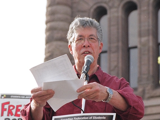 Canadian novelist and broadcaster Thomas King, MCing a protest for Ardoch Algonquin First Nation, Kitchenuhmaykoosib Inninuwug First Nation, and Asubpeeschoseewagong First Nation at Queen's Park, Toronto, Ontario